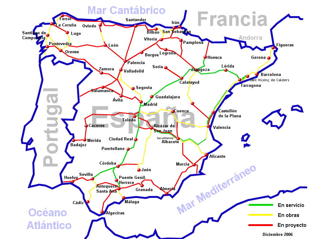 Map of the Spanish high-speed railway network. Some lines are in operation, some under construction and some are planned.